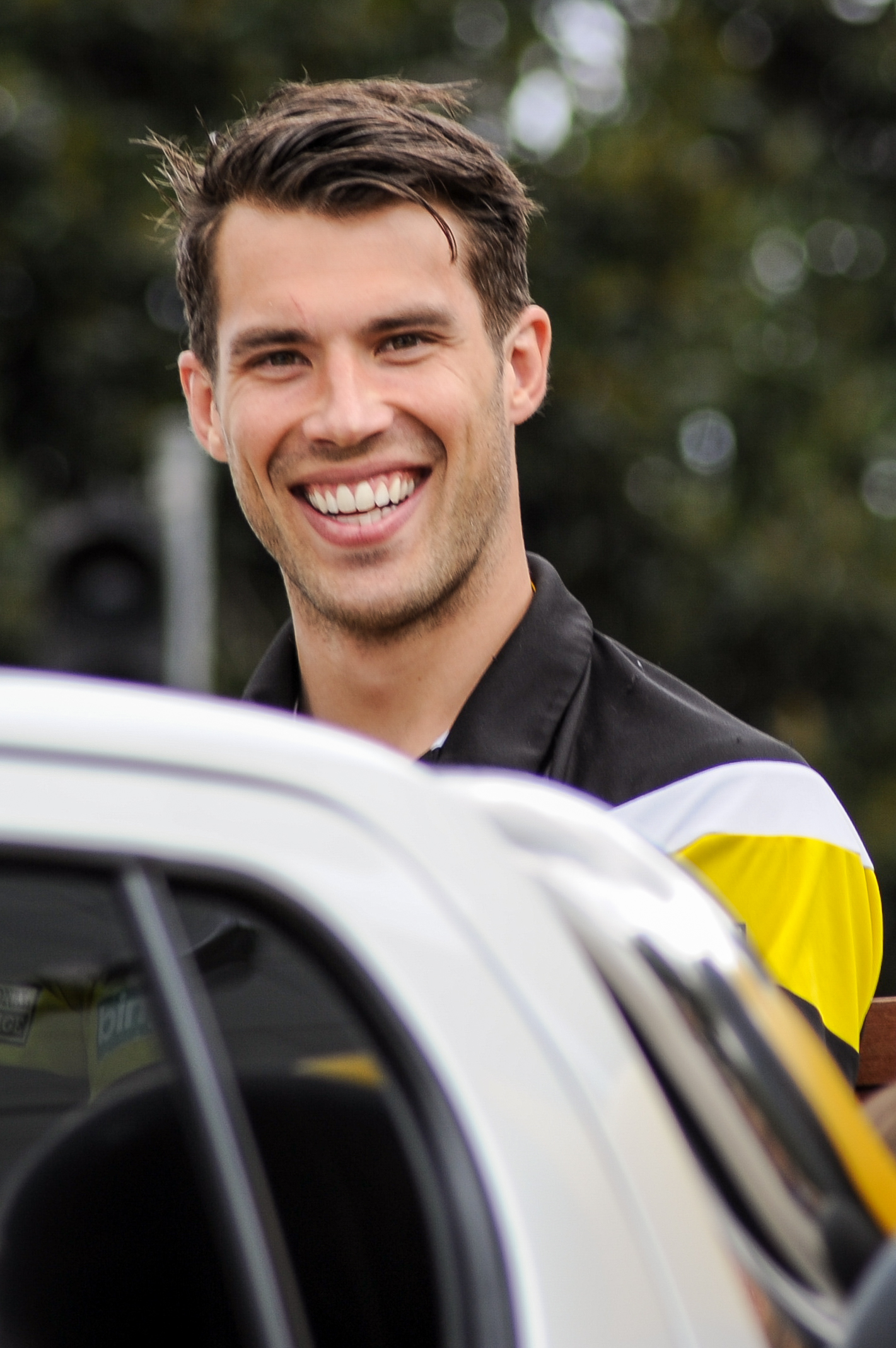 Alex Rance at the 2017 AFL Grand Final parade on 29 September 2017 in Melbourne, Victoria.